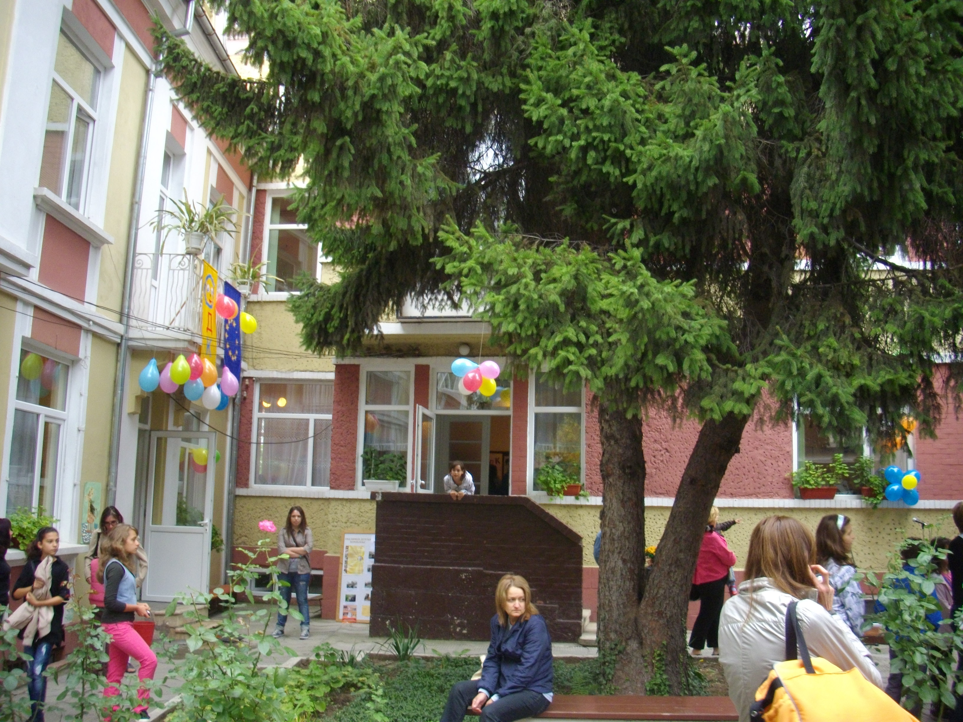 Обединен Детски комплекс - Шумен